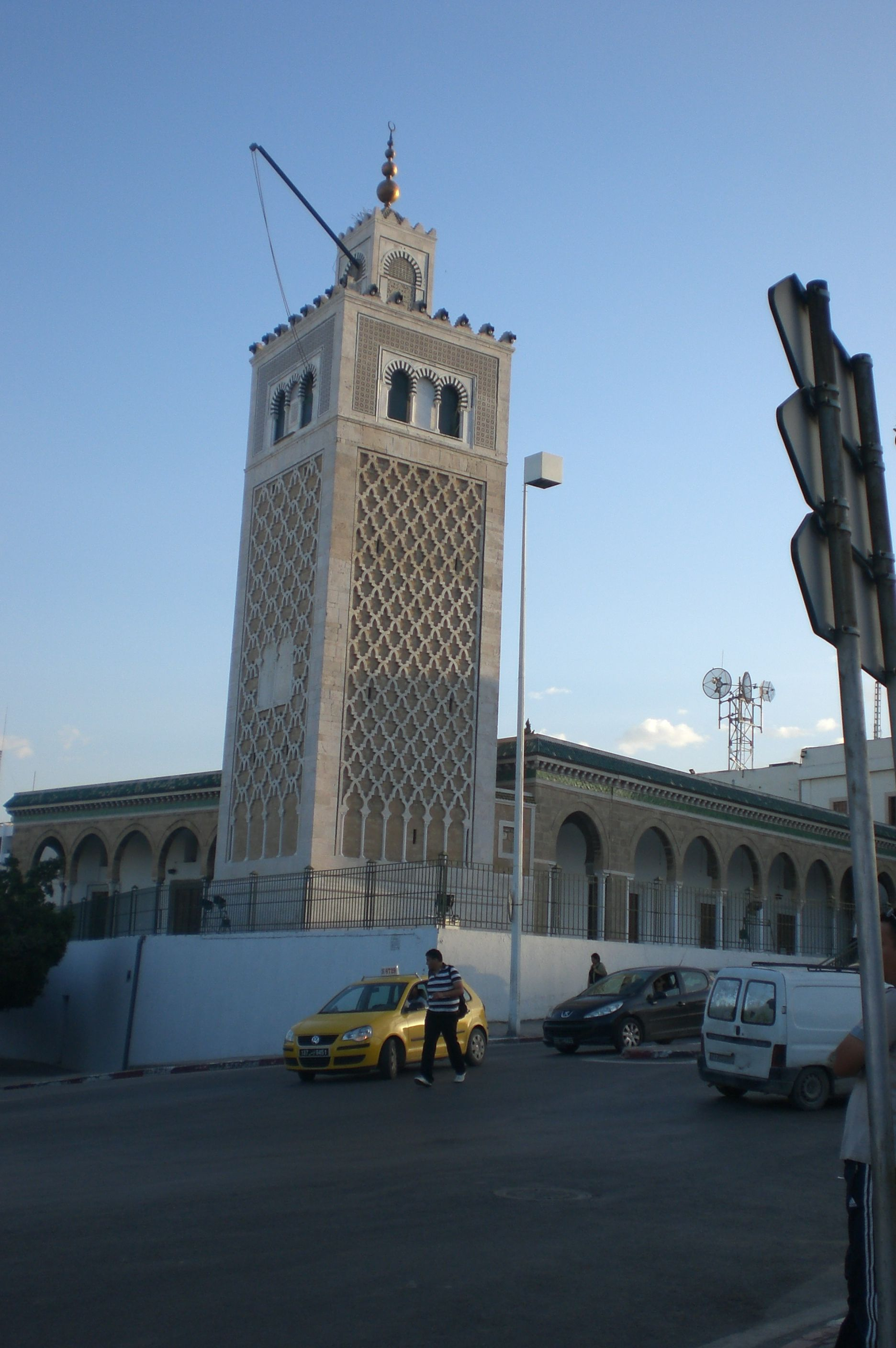 The Hafsid Mosque in Tunis